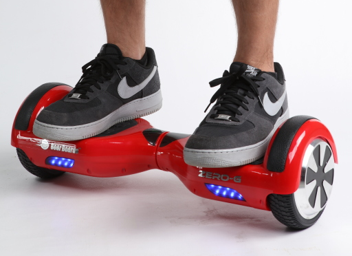 A black self-balancing two-wheeled Hoverboard with a person standing on it.